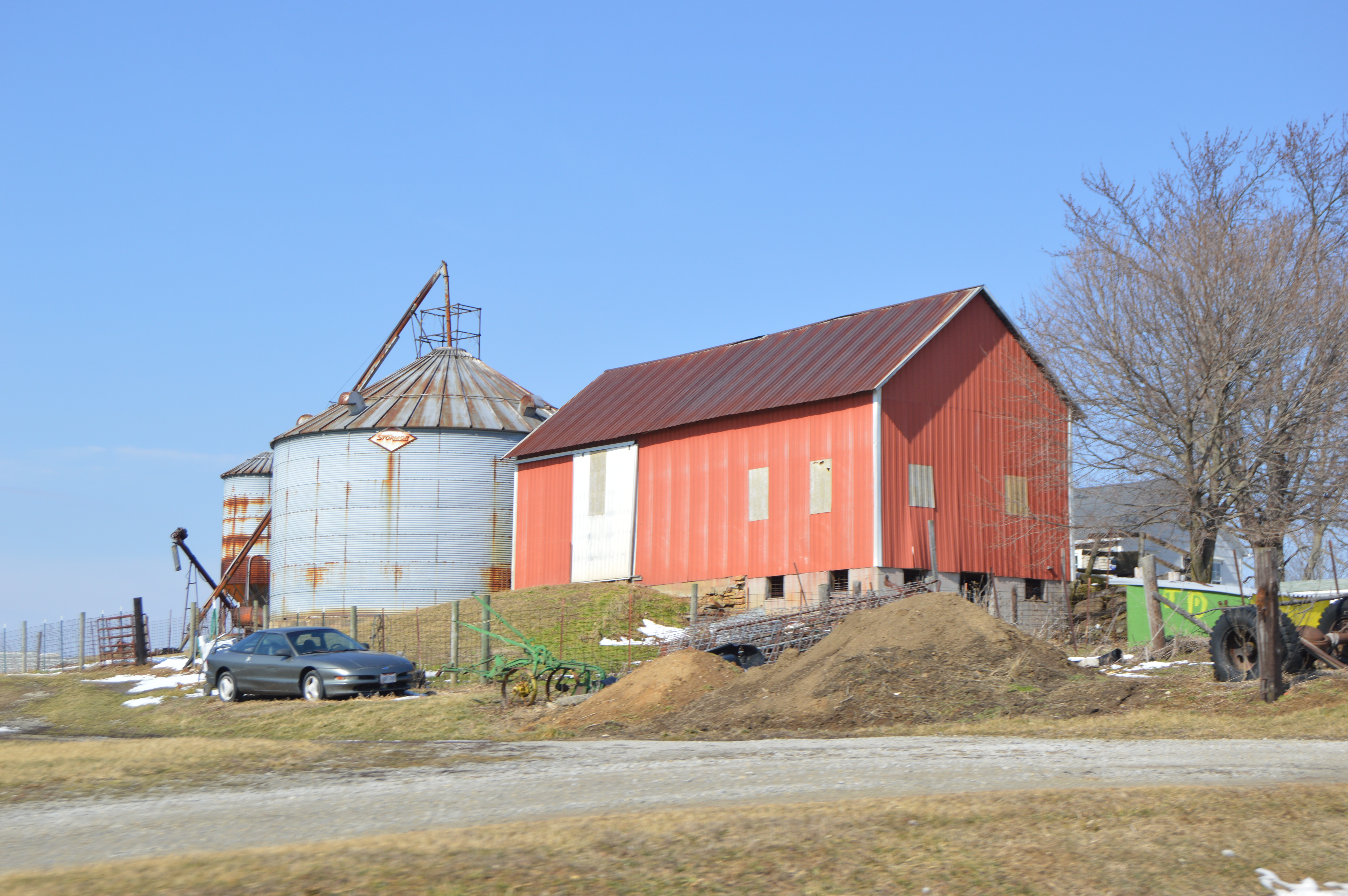 Steel buildings at a farmstead on the western side of Heifner Road southeast of Jamestown in Silvercreek Township, Greene County, Ohio, United States.